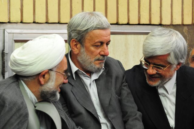 Other 2 persons are very familiar too, but I don't know them. More photos from this set: Picasa